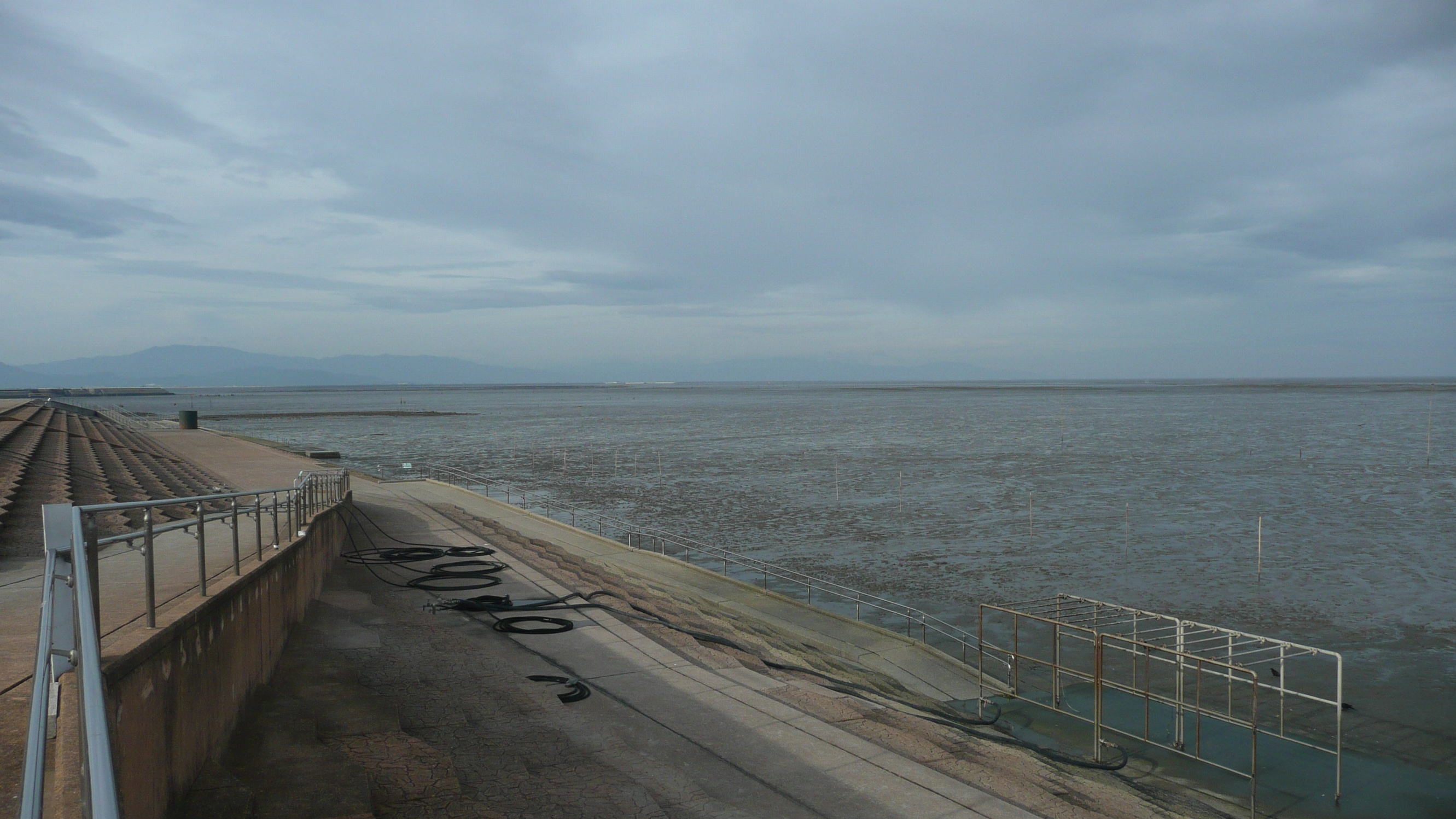 Kashima Coast (Saga, Japan)